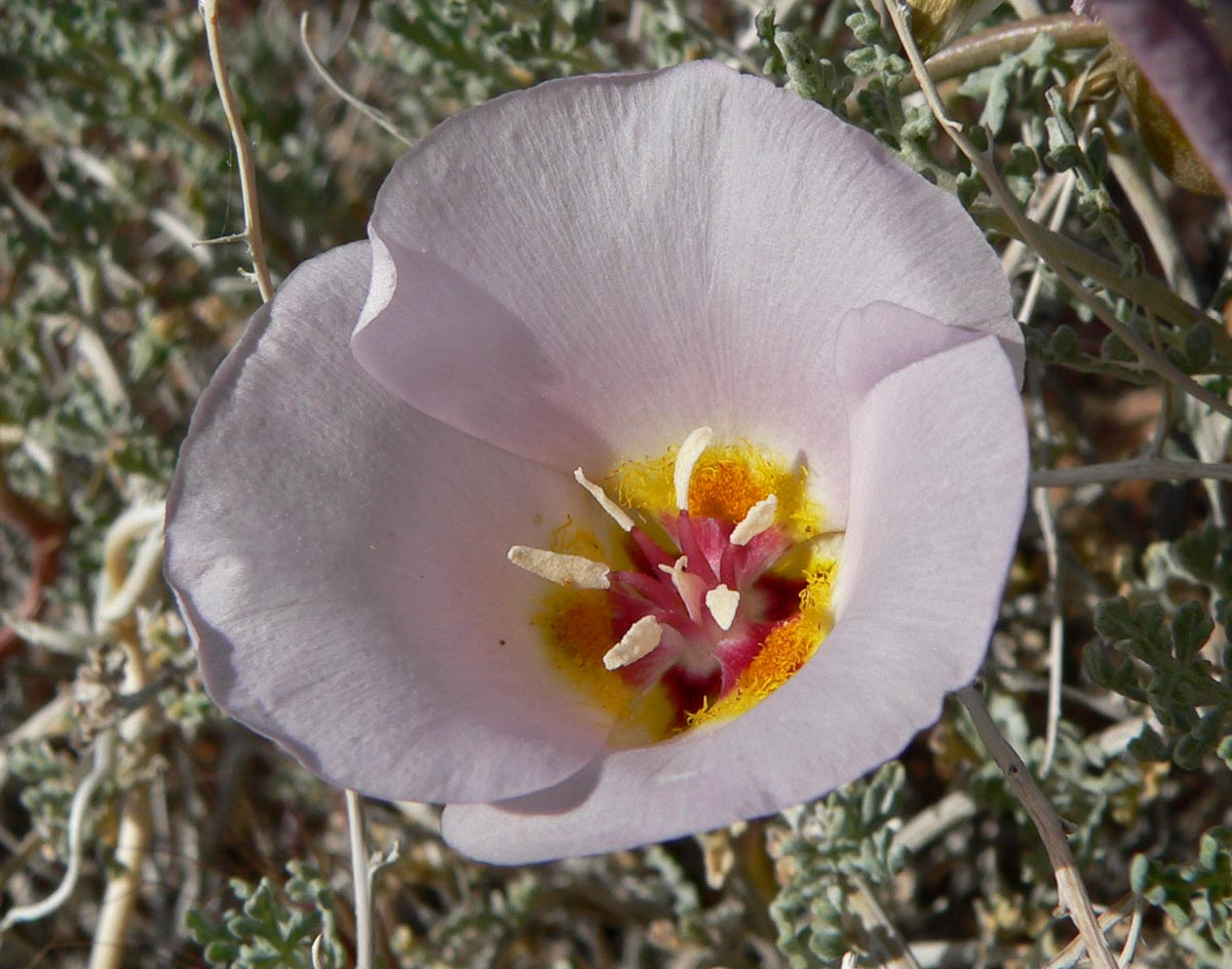 Photo of Calochortus flexuosus (weak-stemmed mariposa lily) just outside Red Rock Canyon, Nevada